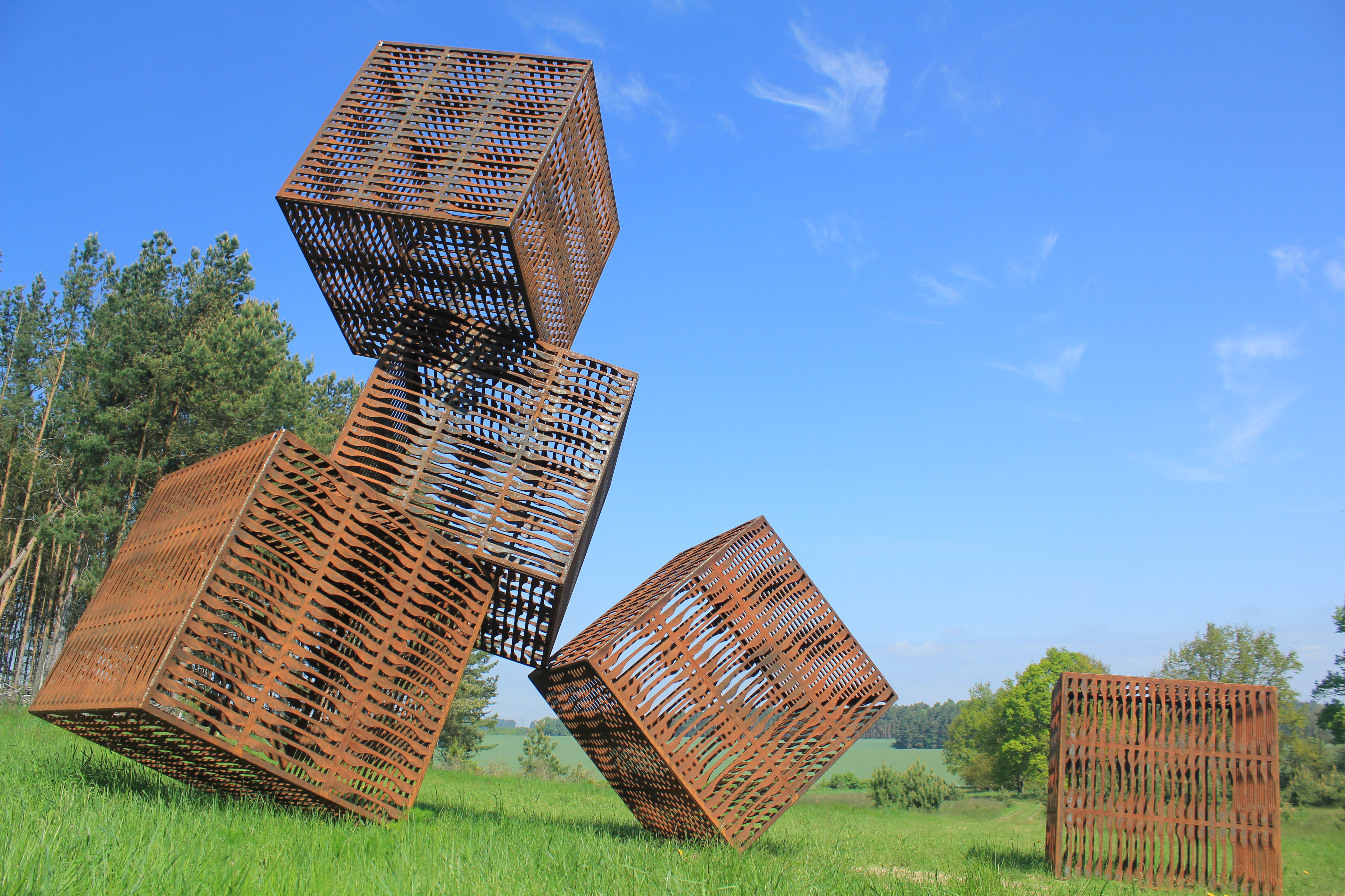 Sculpture Trail Hoher Fläming: "Five Cubes" by Karl Menzen